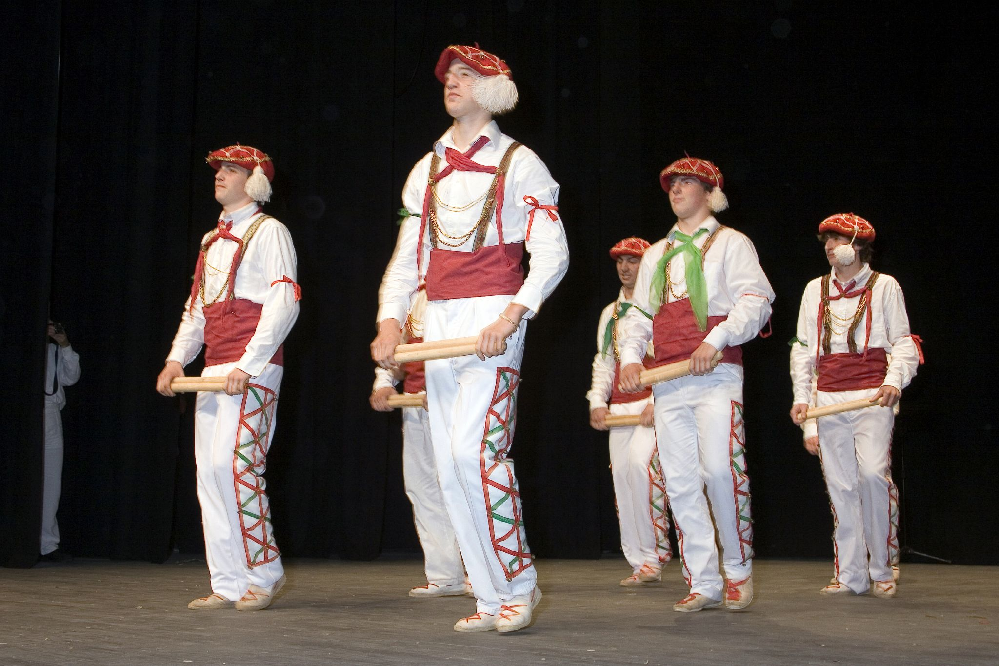 Kaskarotak dancers from the Ustaritz carnival, Northern Basque Country.